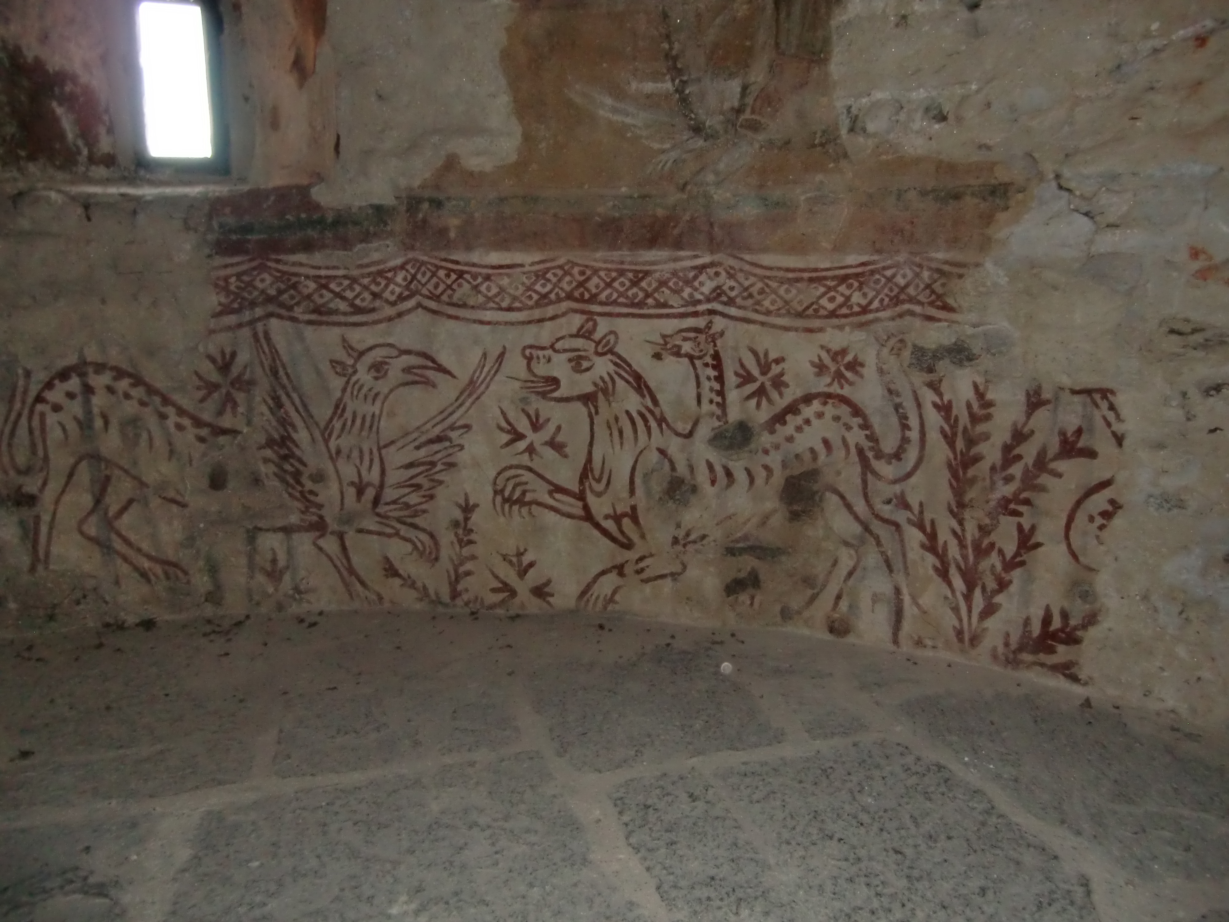 Pombia (Italy), church of San Vincenzo in Castro, narthex, frescoes with figures of the medieval bestiary